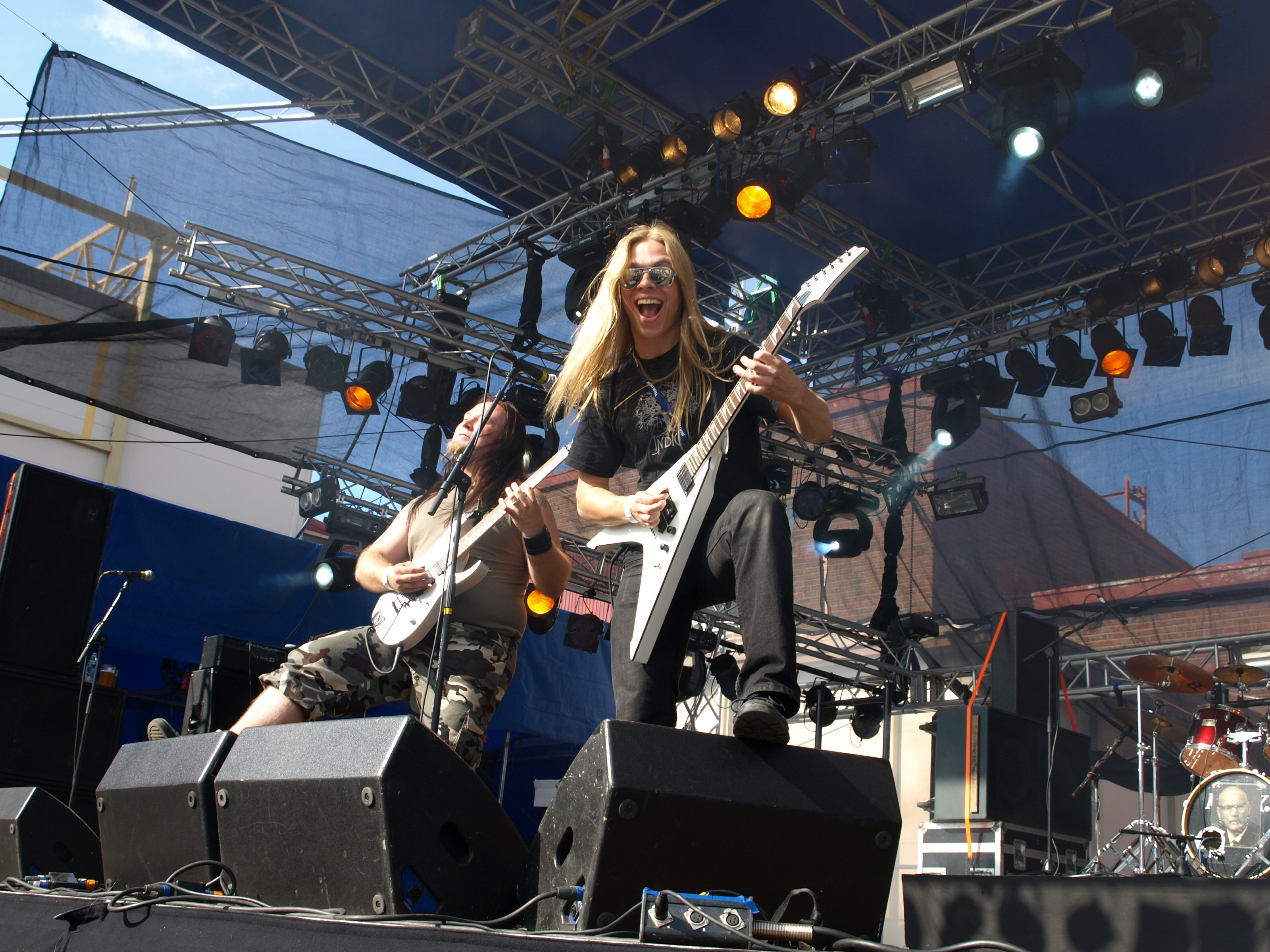 Finnish metal band Heavy Metal Perse live at Jalometalli 2008 in Oulu.